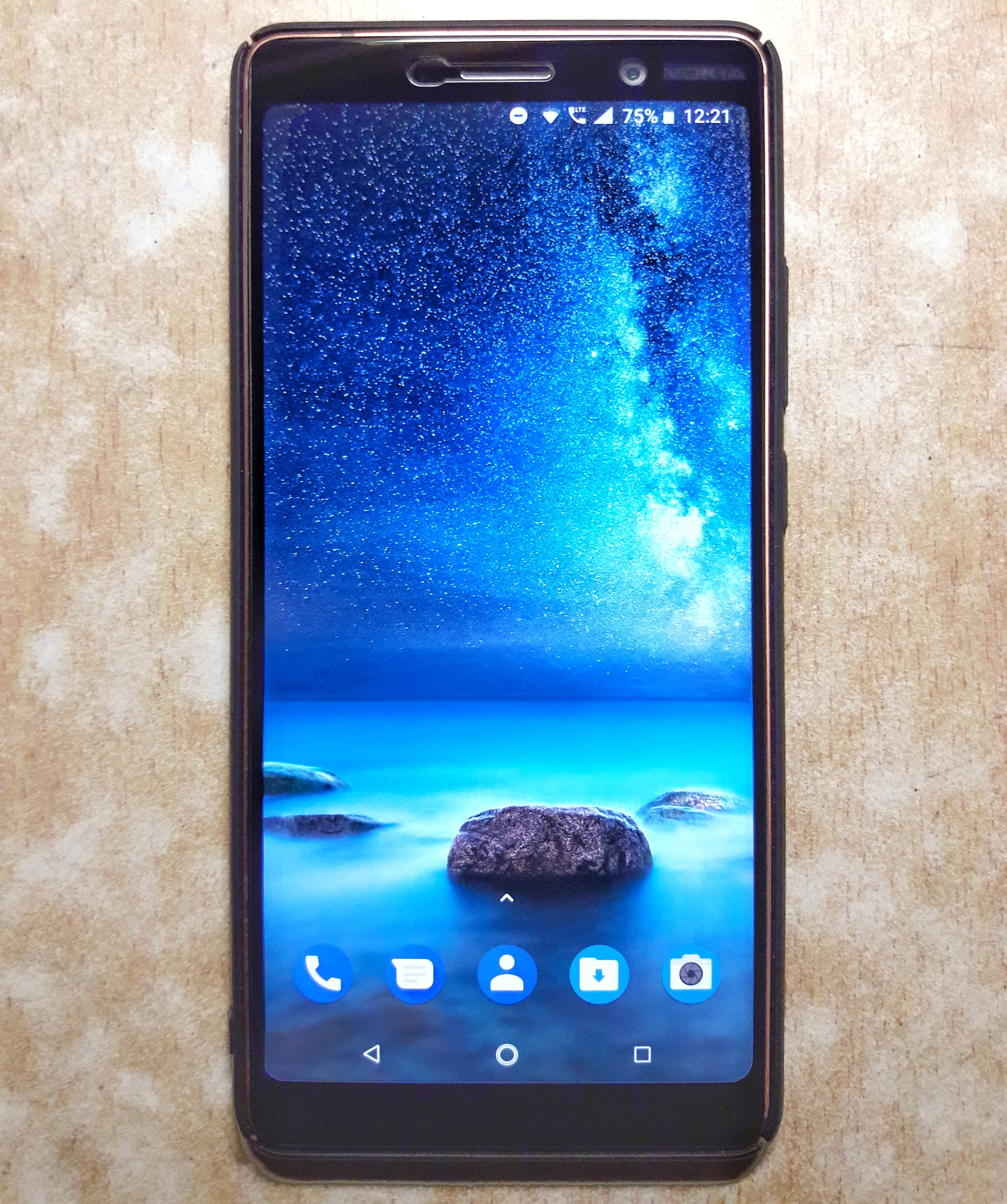 This is the photograph of my handset of Nokia 7 Plus.